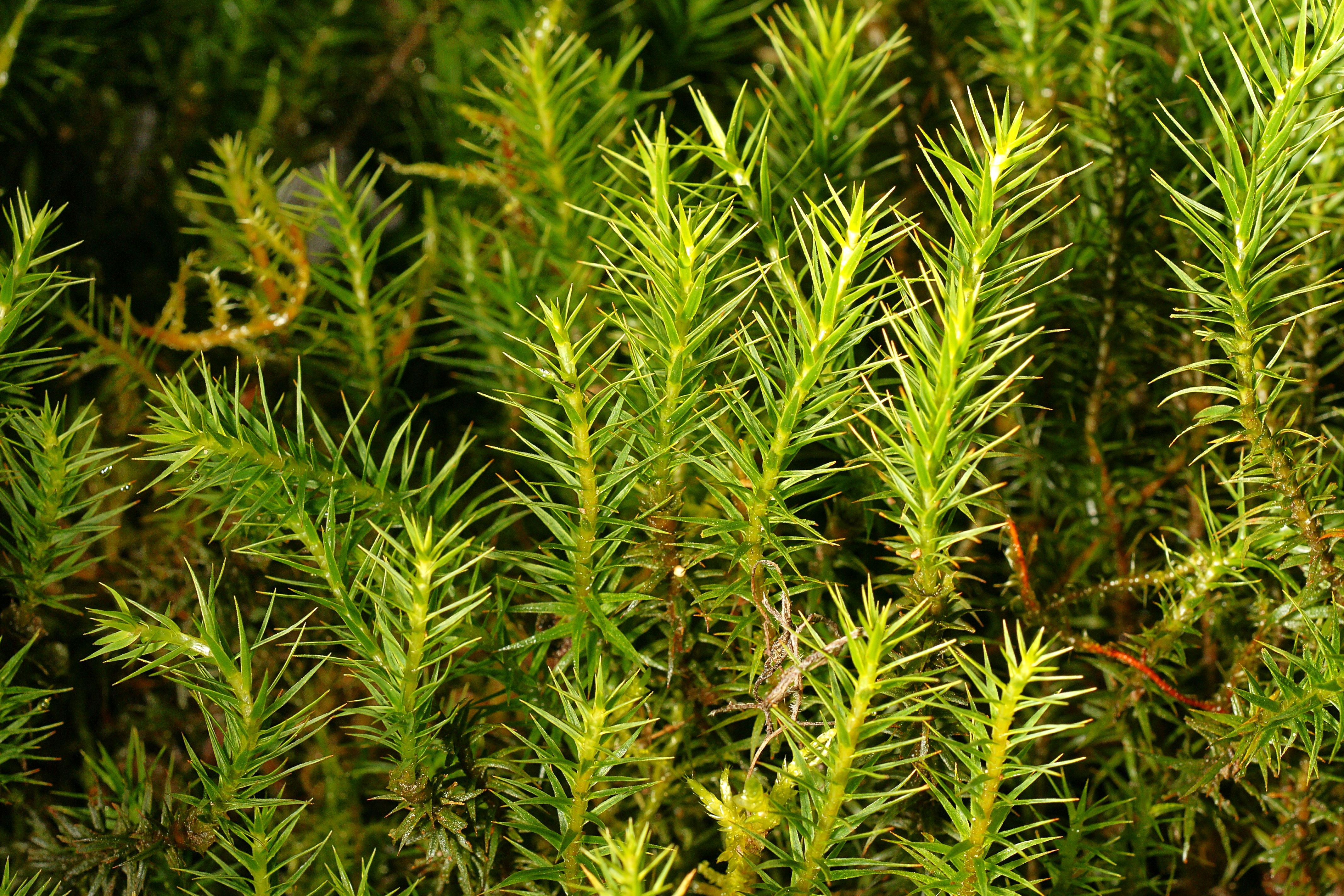 Polytrichum formosum